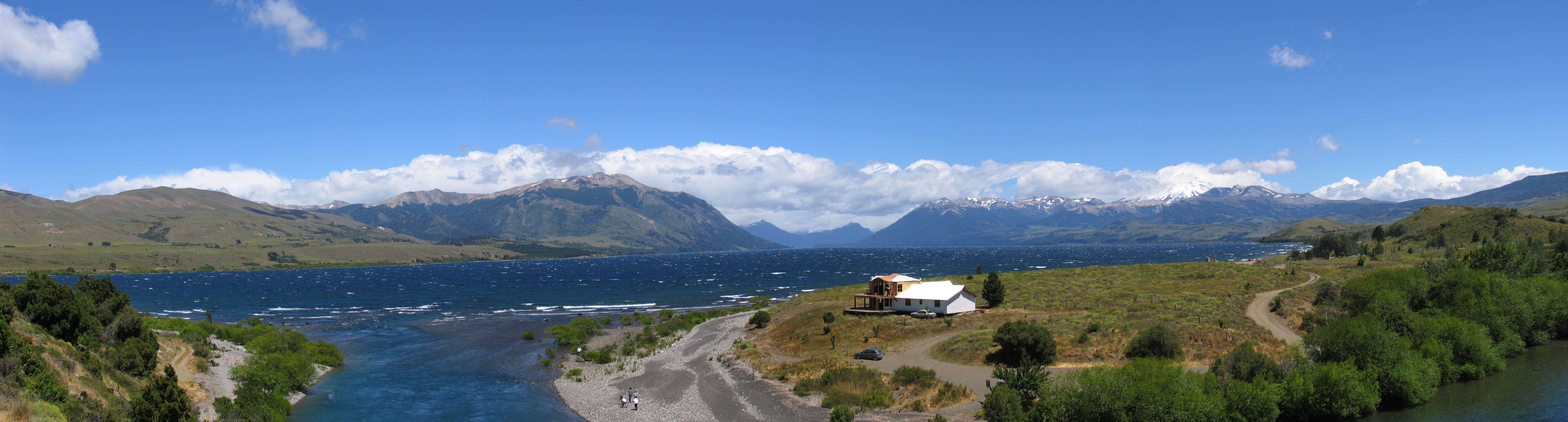 Lanín National Park. Photo by me, january 2005